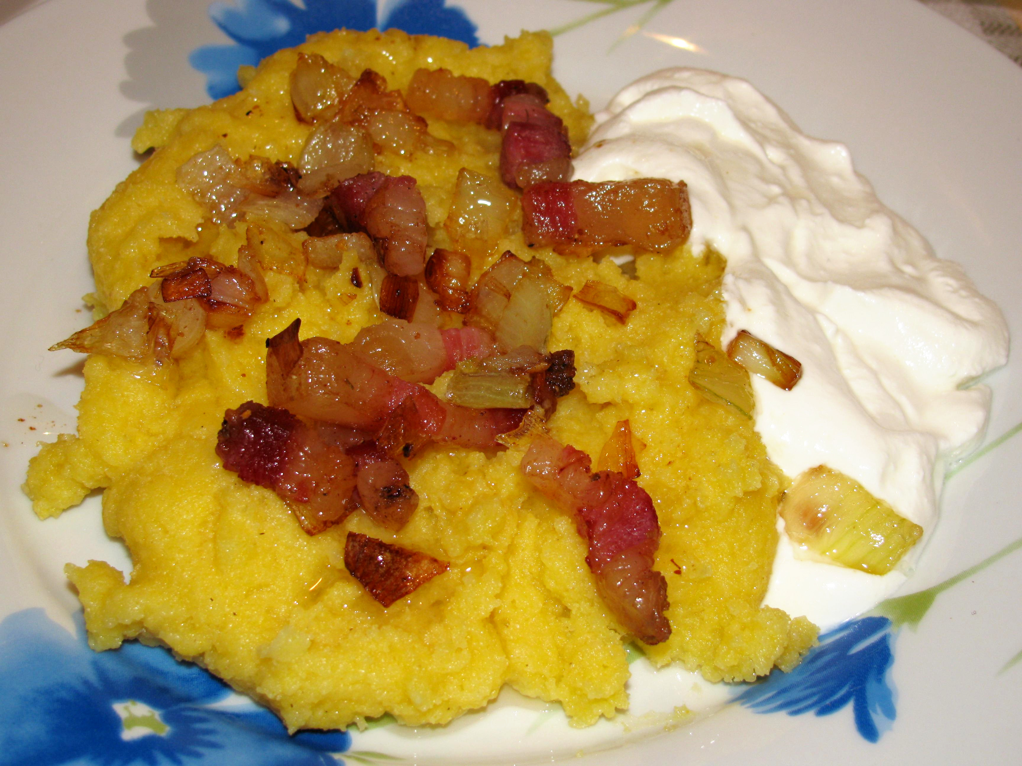 Ukrainian kulesha (Mămăligă), porridge made out of yellow maize flour, served with shkvarki and smetana (sour cream)